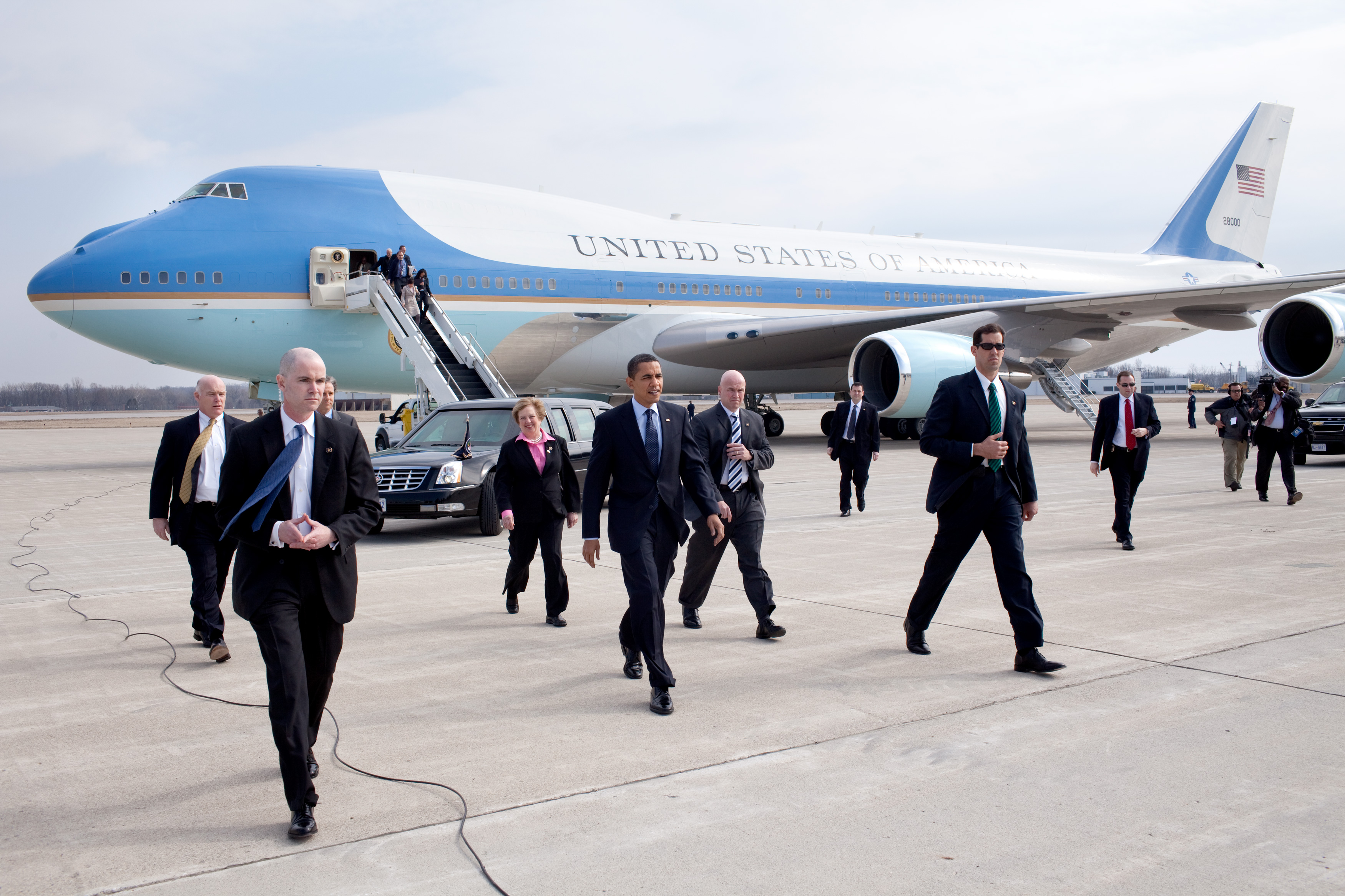 United States President Barack Obama with Senator Sherrod Brown, Representative Mary Jo Kilroy, and Secret Service personnel arriving at Port Columbus International Airport in Columbus, Ohio.